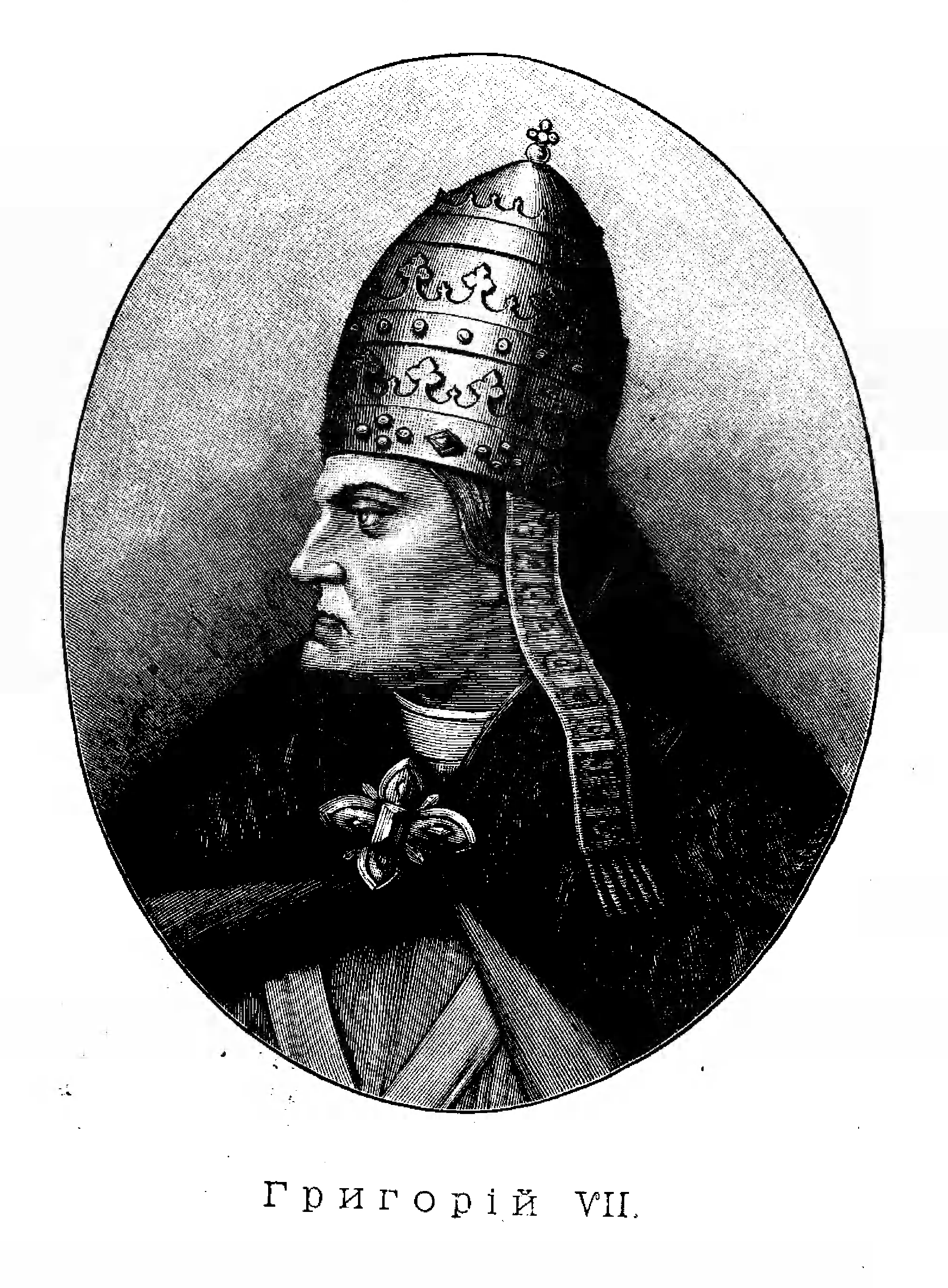 Pope Gregory VII